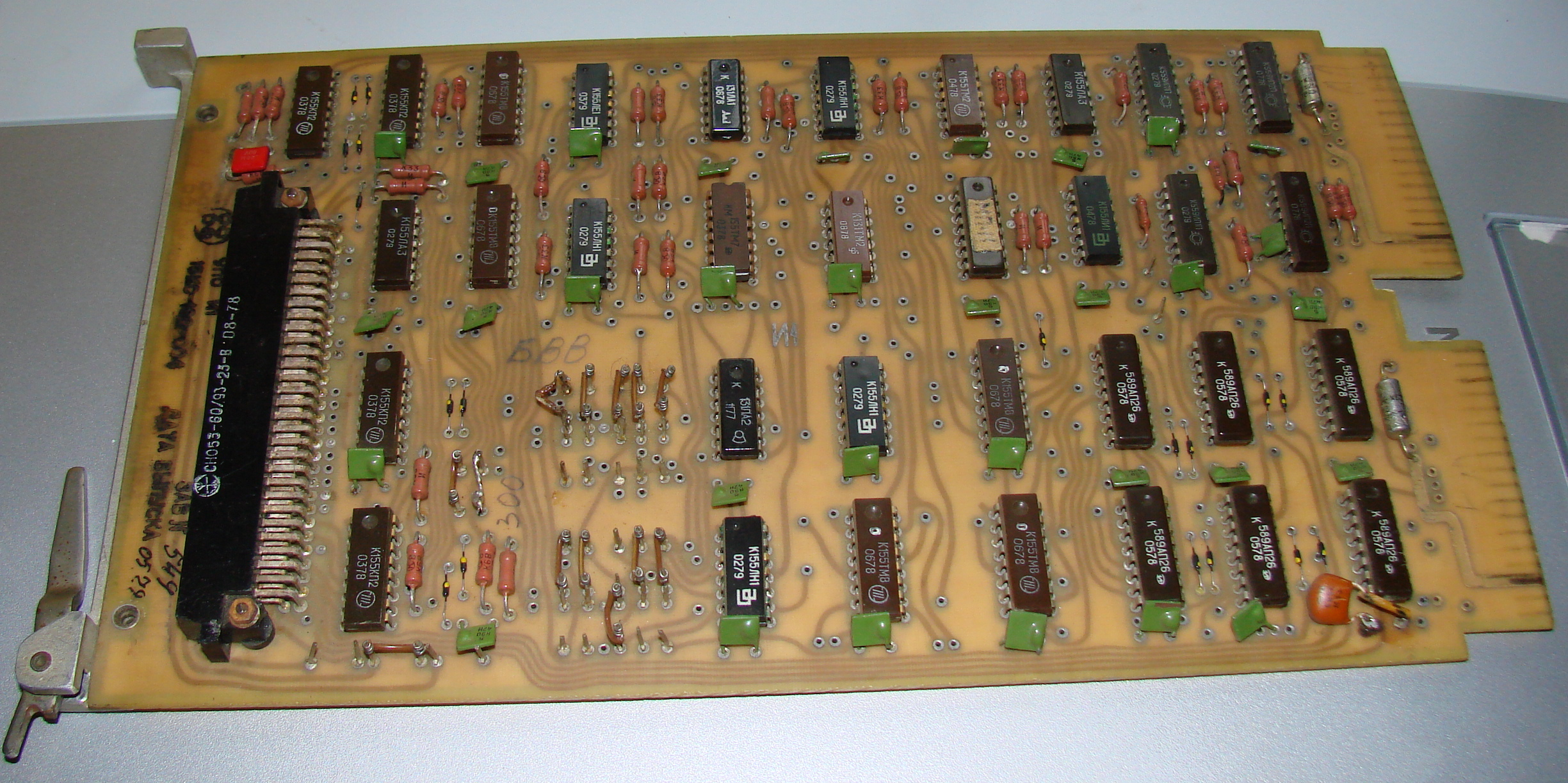 I1 parallel interface for Elektronika 60 compatible systems